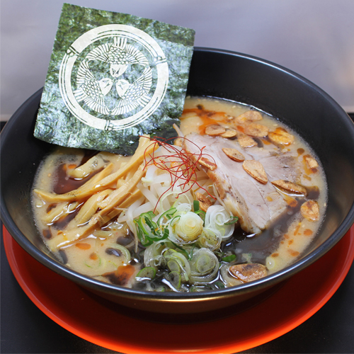 miso noodle